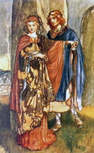 The Courting of Emer